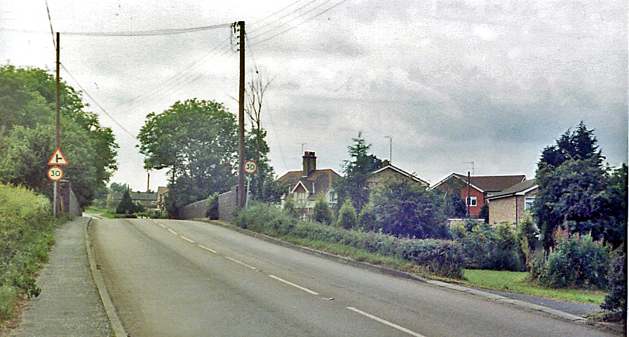 Site of Cold Norton station View westward on B1012 to the bridge over the track of the Woodham Ferrers (left) - Maldon West) (right) ex-GE branch. The station had been on the right, but was closed when the passenger service ceased on 10/9/39, although the line remained open for goods until 1/4/53.